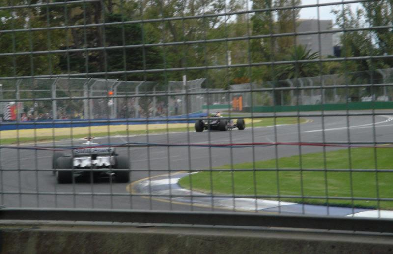 BMW-Williams' car slows down to take the sharp curve